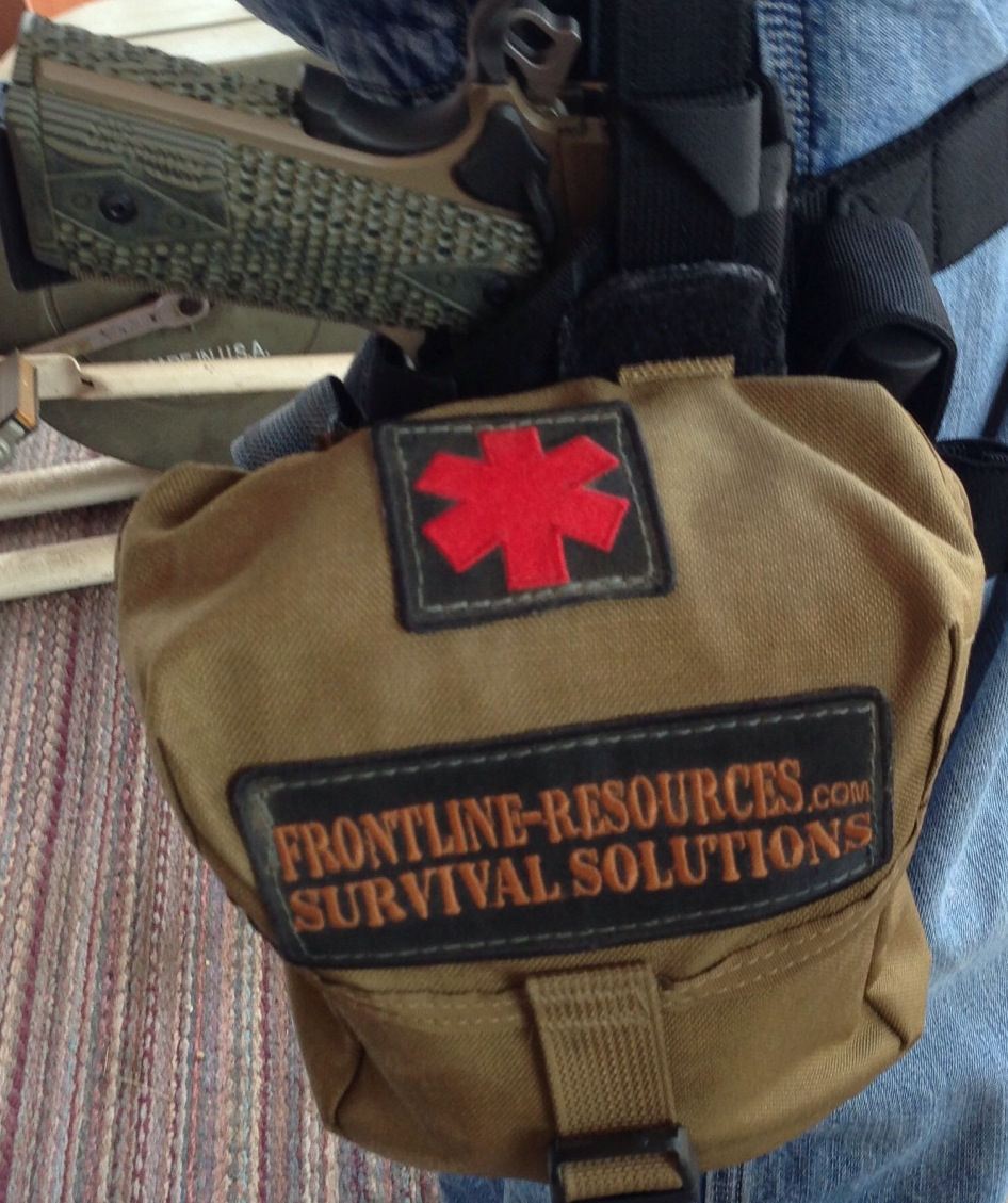 individual first aid kit, these are the type of small but fully mission capable first aid/ trauma kits military personnel carry on their person at all times.